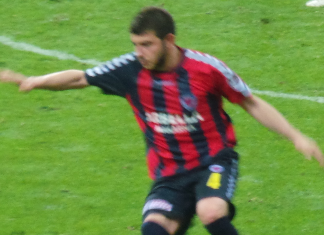 Murat MİY